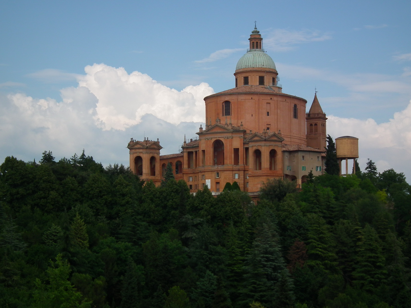 Sanctuary of the Madonna di San Luca Native nameSantuario della Madonna di San LucaLocationBalogna, Emilia-Romagna, ItalyCoordinates44° 28′ 44″ N, 11° 17′ 53″ E Established1194-1765 (Constructed)Web page control : Q2004104 VIAF: 158724534 LCCN: nr95024475 WorldCat institution QS:P195,Q2004104